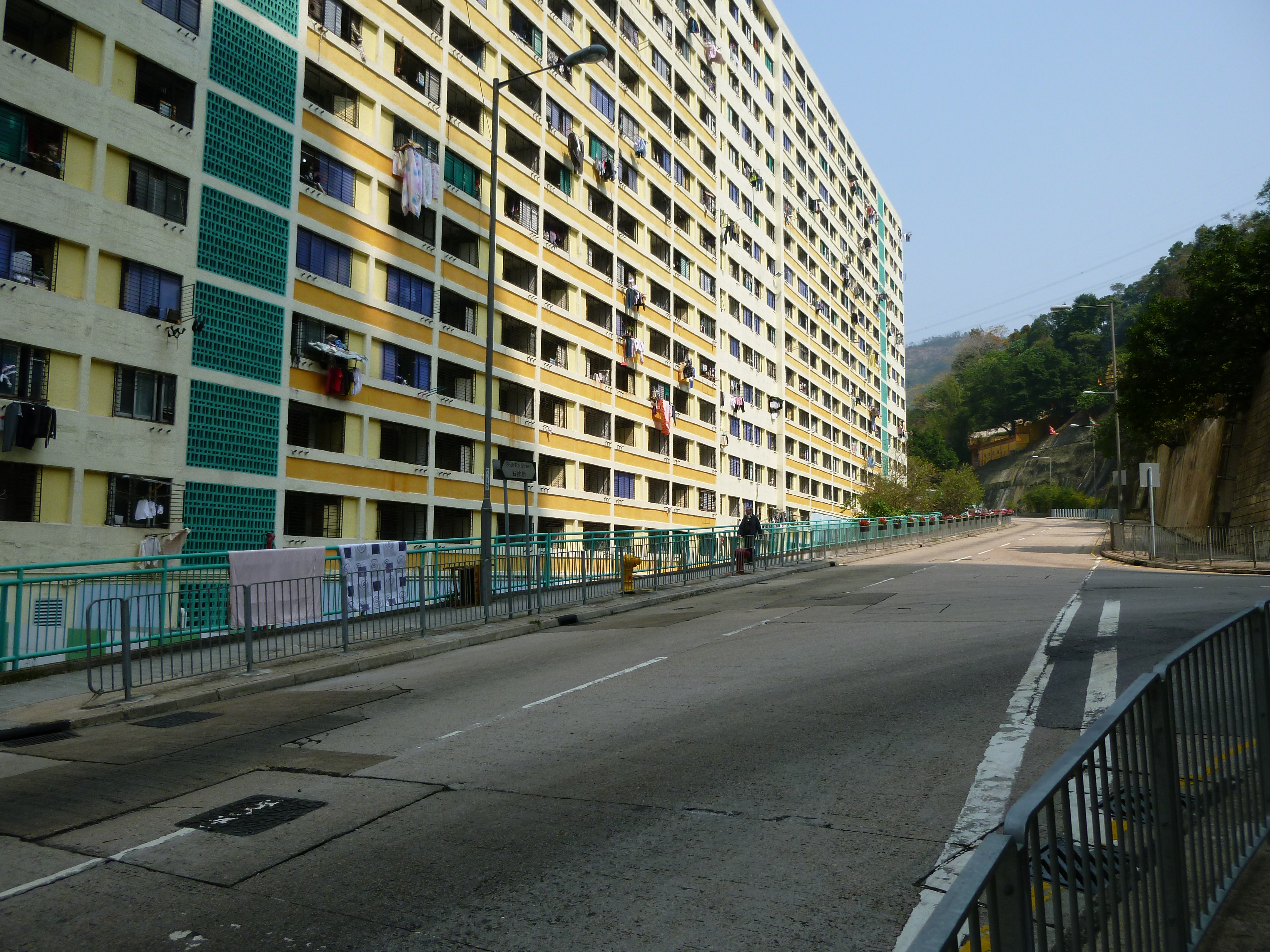 Shek Pai Street (Kwai Tsing, New Territories, Hong Kong)